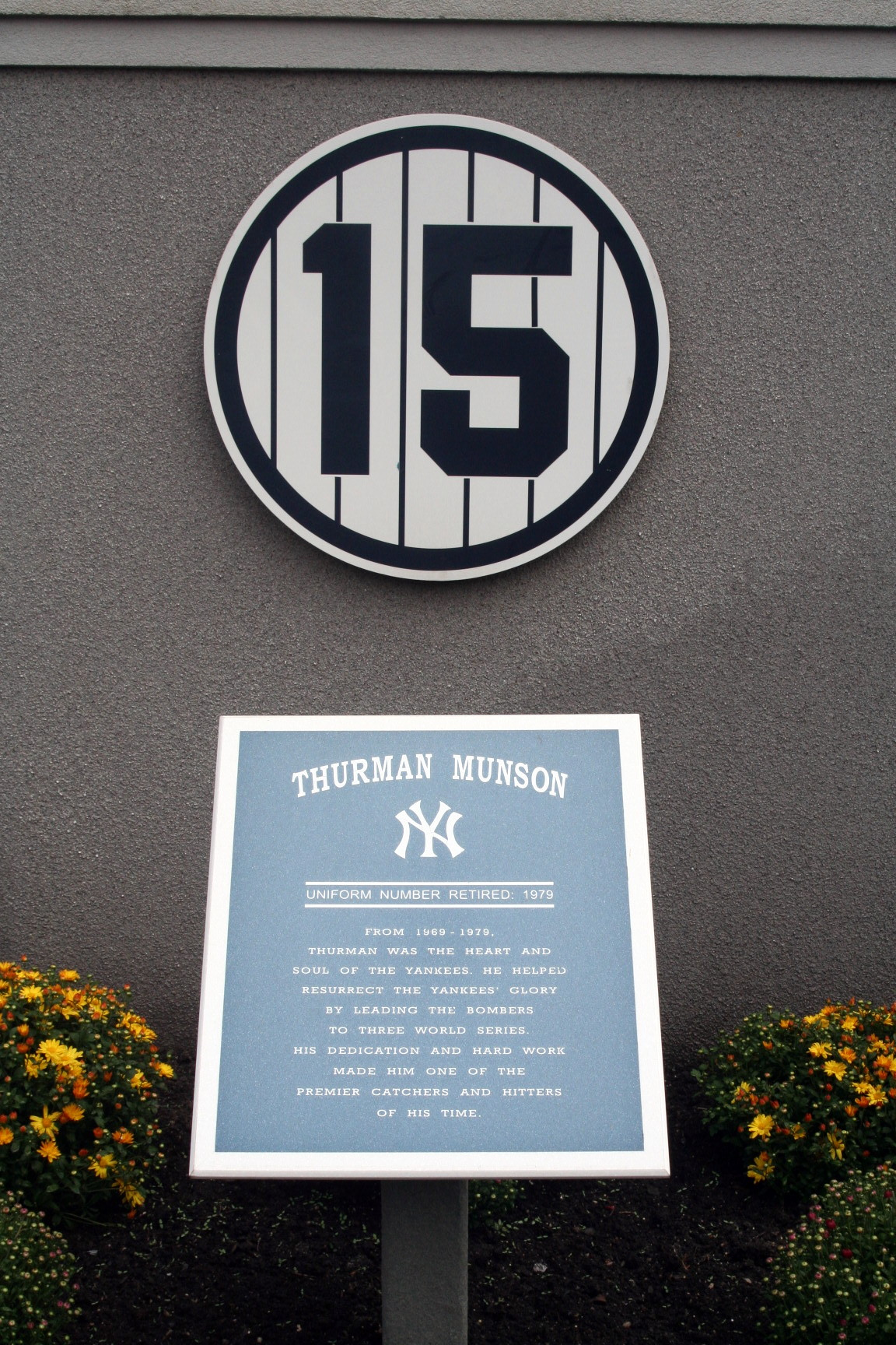 Thurman Munson Plaque at Monument Park